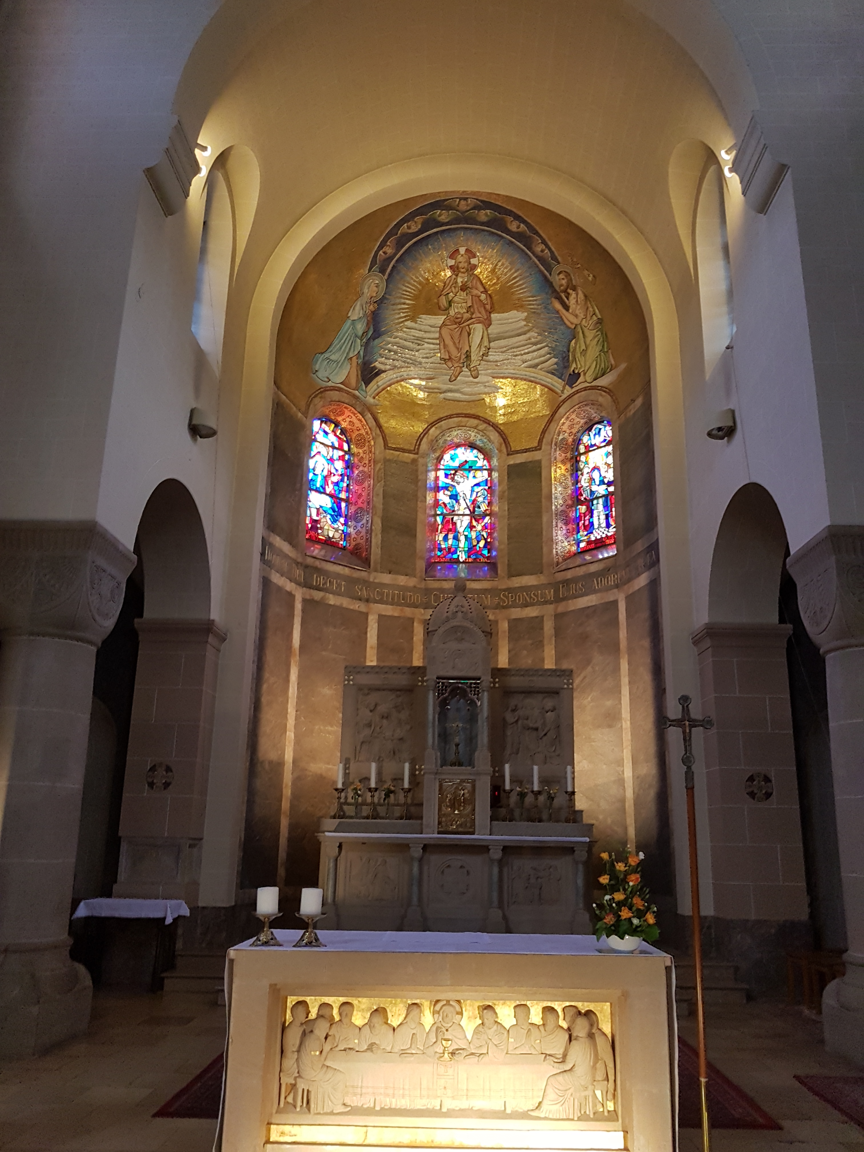 Interior of the Roman Catholic Church in Clervaux (also: Church of St. Cosmas and Damian, lux .: Kierch zu Klierf; french: Église Saints-Côme-et-Damien, german: Kirche in Clerf or Kirche St. Cosmas und Damian) in the Montée de l'église (street) in the municipality of Clervaux' (lux.: Klierf